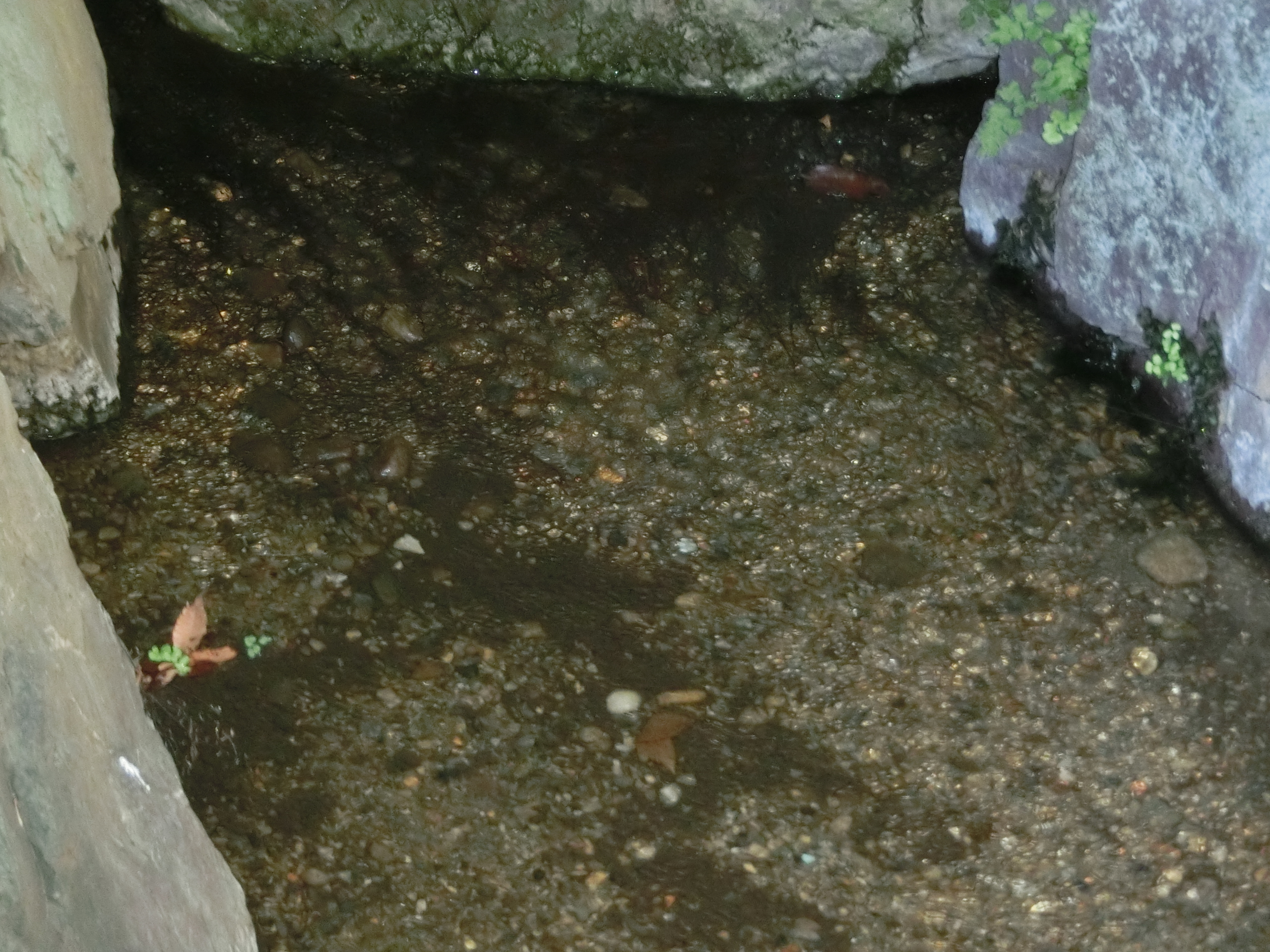 Nukui Jinja Yusui